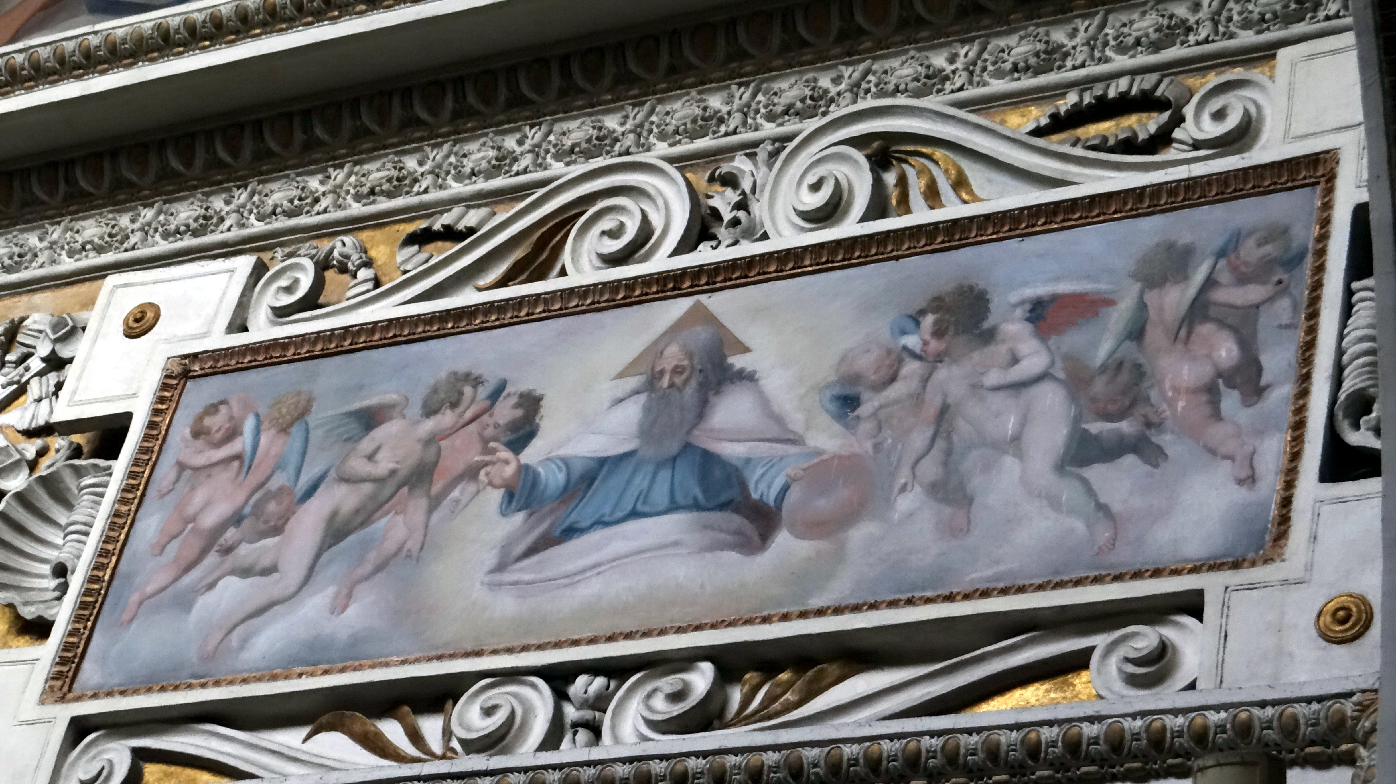 God the Father Blessing among angels by Giulio Mazzoni in the Theodoli Chapel, Santa Maria del Popolo